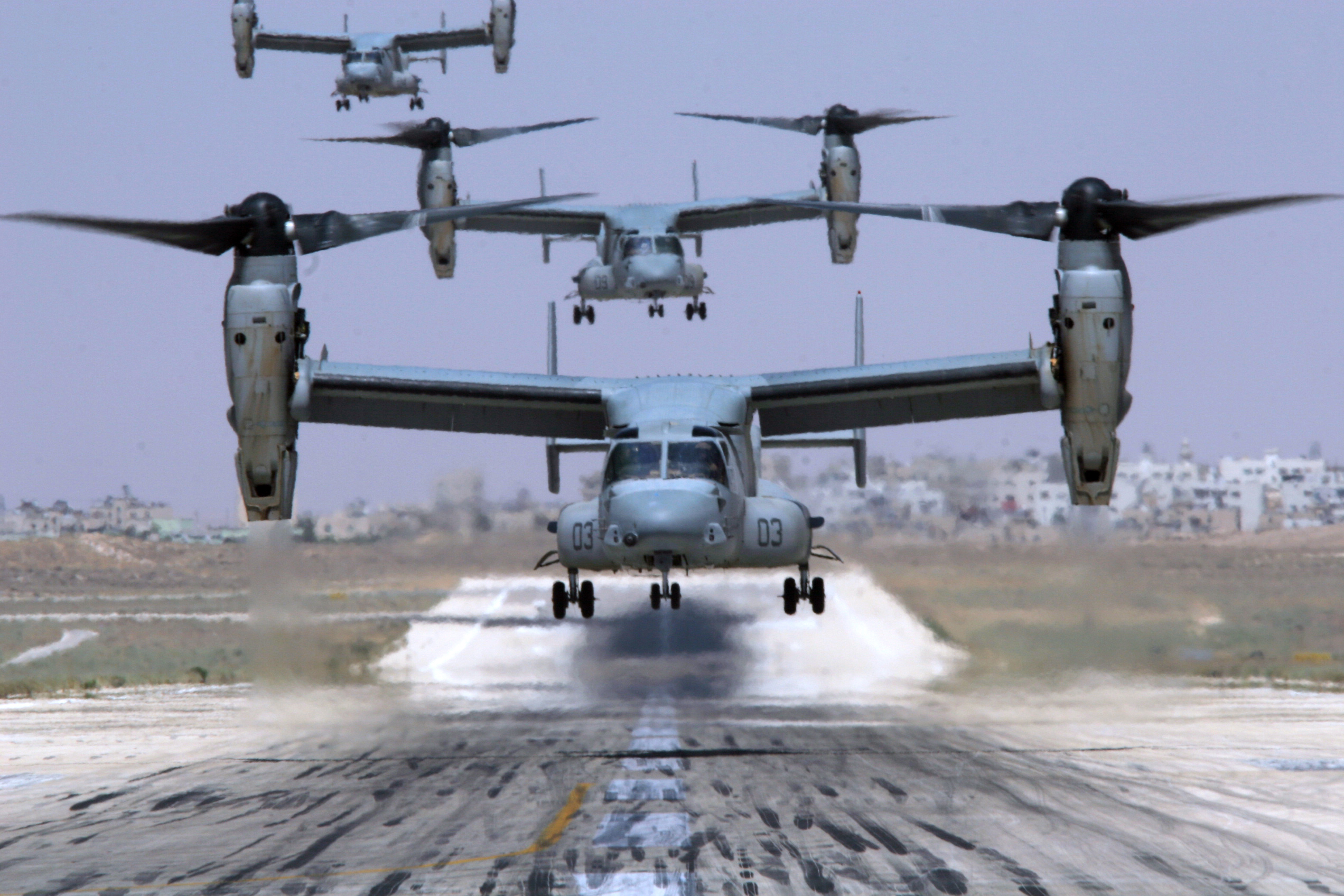 Three MV-22 Ospreys with Marine Medium Tiltrotor Squadron 162, Marine Aircraft Group 16, 3rd Marine Aircraft Wing (Forward), land at an airport in Amman, Jordan on July 22. Four aircraft from the squadron transported Sens. Barack Obama (D-Ill.), Jack Reed (D-R.I.) and Chuck Hagel (R-Neb.) from Iraq's al-Anbar Province to Jordan on July 22.